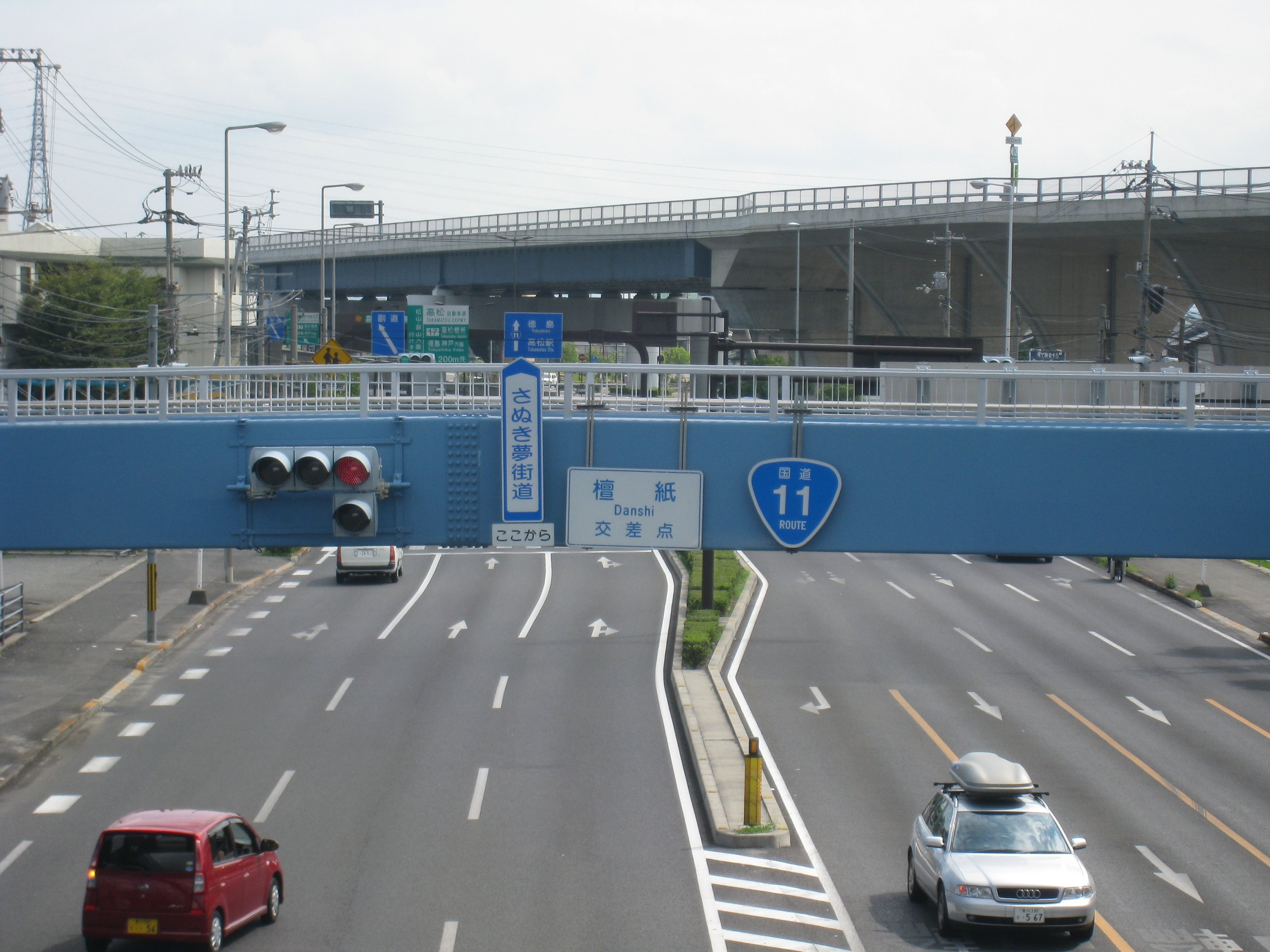 Japanese Route 11 Sanuki-yumekado starting point